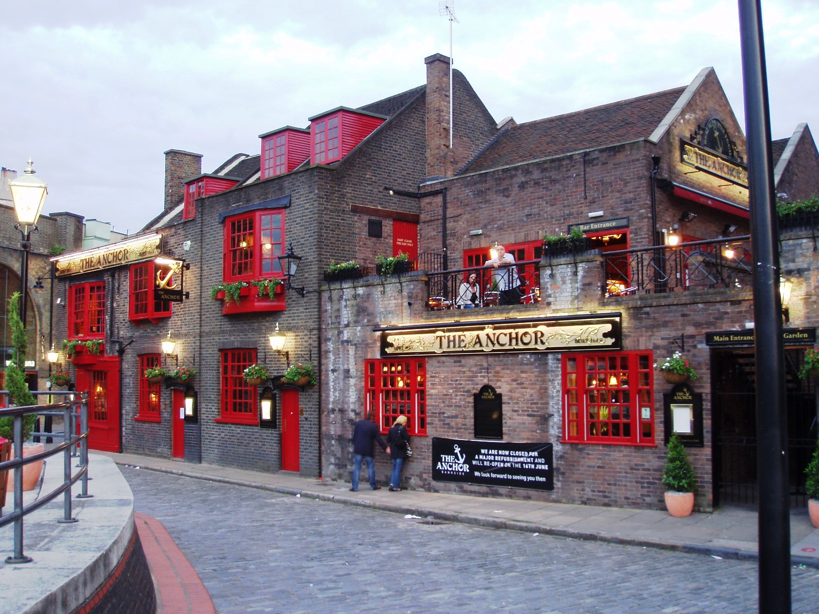 Recently refurbished historic pub on the riverside, near the Globe. This photo was taken a couple of days before it reopened. It was originally the brewery tap for the huge Anchor Brewery, based on the site behind it since 1616, but closed and demolished in 1981 (except for one or two buildings), to be replaced by Council housing. (View pub before refurbishment.) Address: 34 Park Street (formerly Bankside). Owner: Punch Taverns Spirit Group; Courage (former). Links: Randomness Guide to London Fancyapint Beer in the Evening Dead Pubs (history)